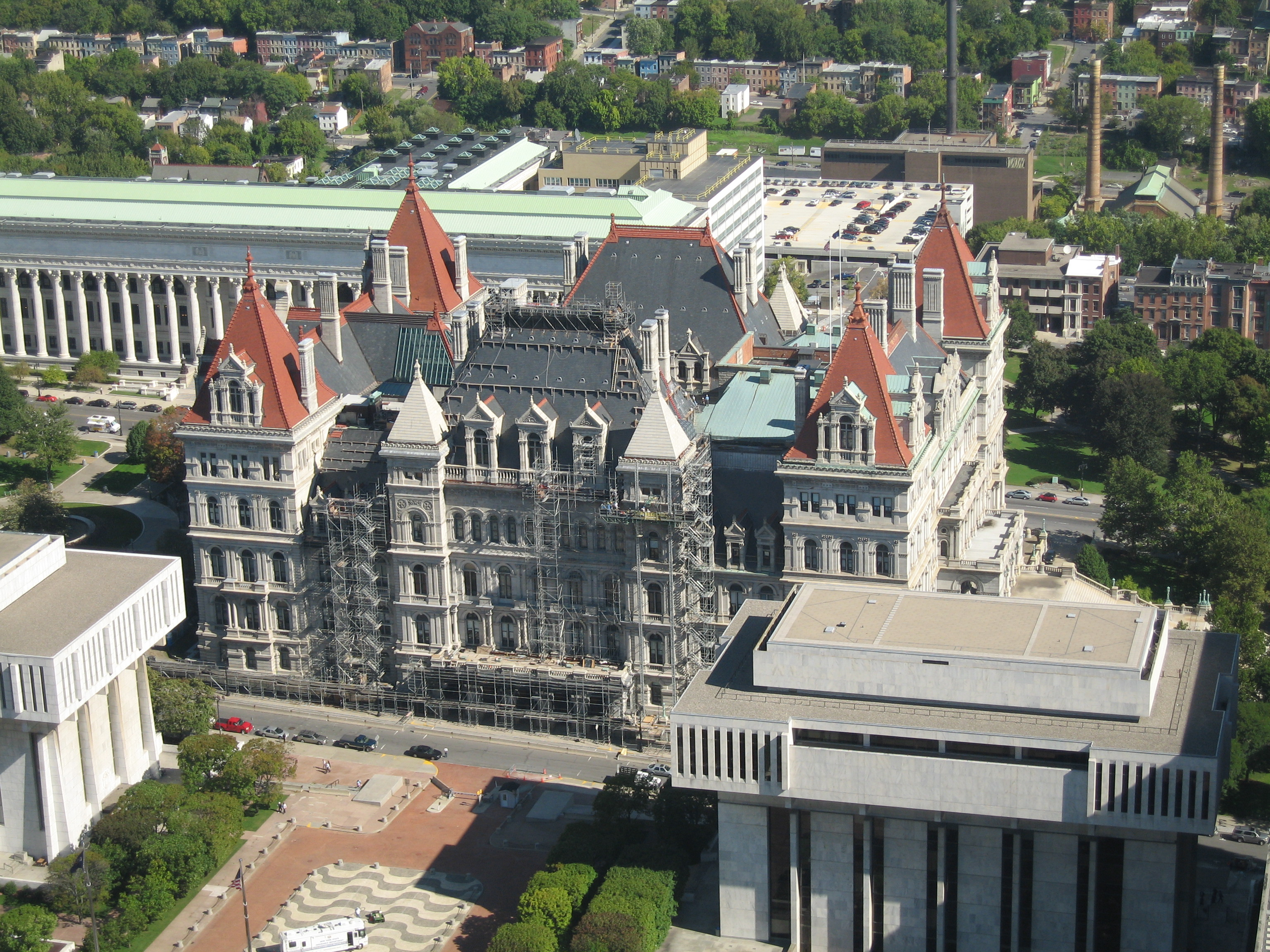 New York State capitol circa 2007 from corning tower.